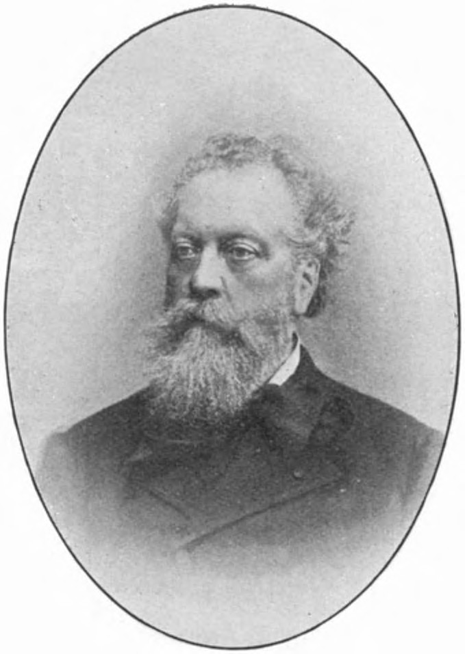 nameJhr. Mr. W. C. A. ALBERDA VAN EKENSTEIN. political affiliationliberalism positionmember of the Senate of the Netherlands RepresentsGroningen period2 May 1888-1905